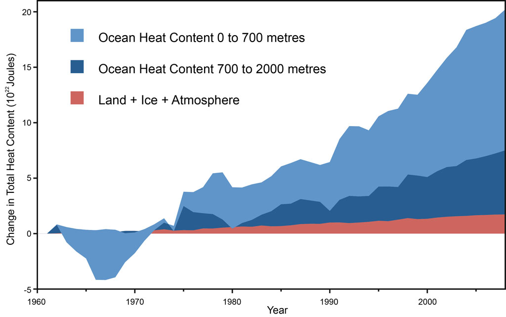 Timeline from peer reviewed science paper (Comment on Ocean heat content and Earth's radiation imbalance. II. Relation to climate shifts Dana Nuccitelli, Robert Way, Rob Painting, John Church & John Cook ; March 31, 2012), showing how much of the heat added to the climate system went into the combination of land-ice-atmosphere, compared to the upper and lower oceans. According to this publication, overall there was no "pause" in global warming, even if the rate at which surface temperatures were increasing did slow down. Source: Skeptical Science